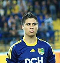 Jonathan Cristaldo, forward of FC Metalist Kharkiv